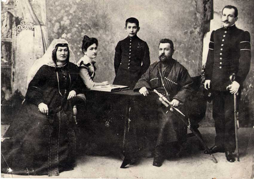 Georgian noble family of Amirejibi